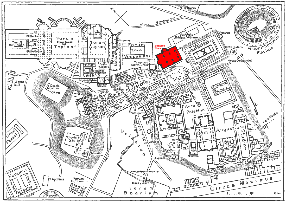 Map of antique downtown Rome, Basilica Nova is highlighted.